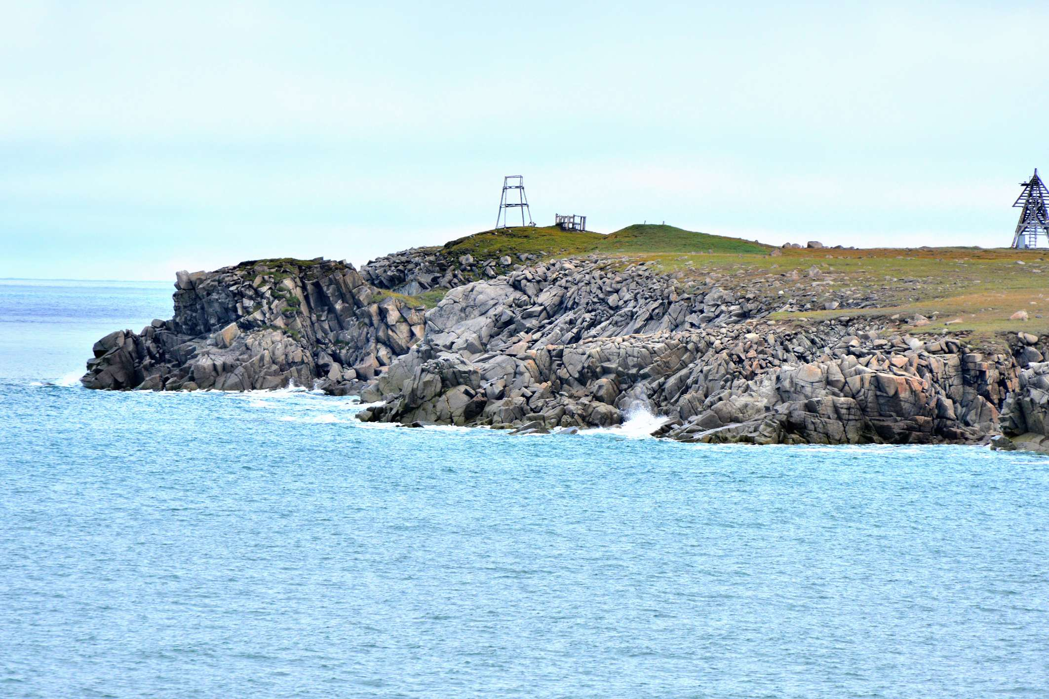 Cape Vankarem (Chukchi Sea, Russia; 67°50‘52’’N, 175°48’W)